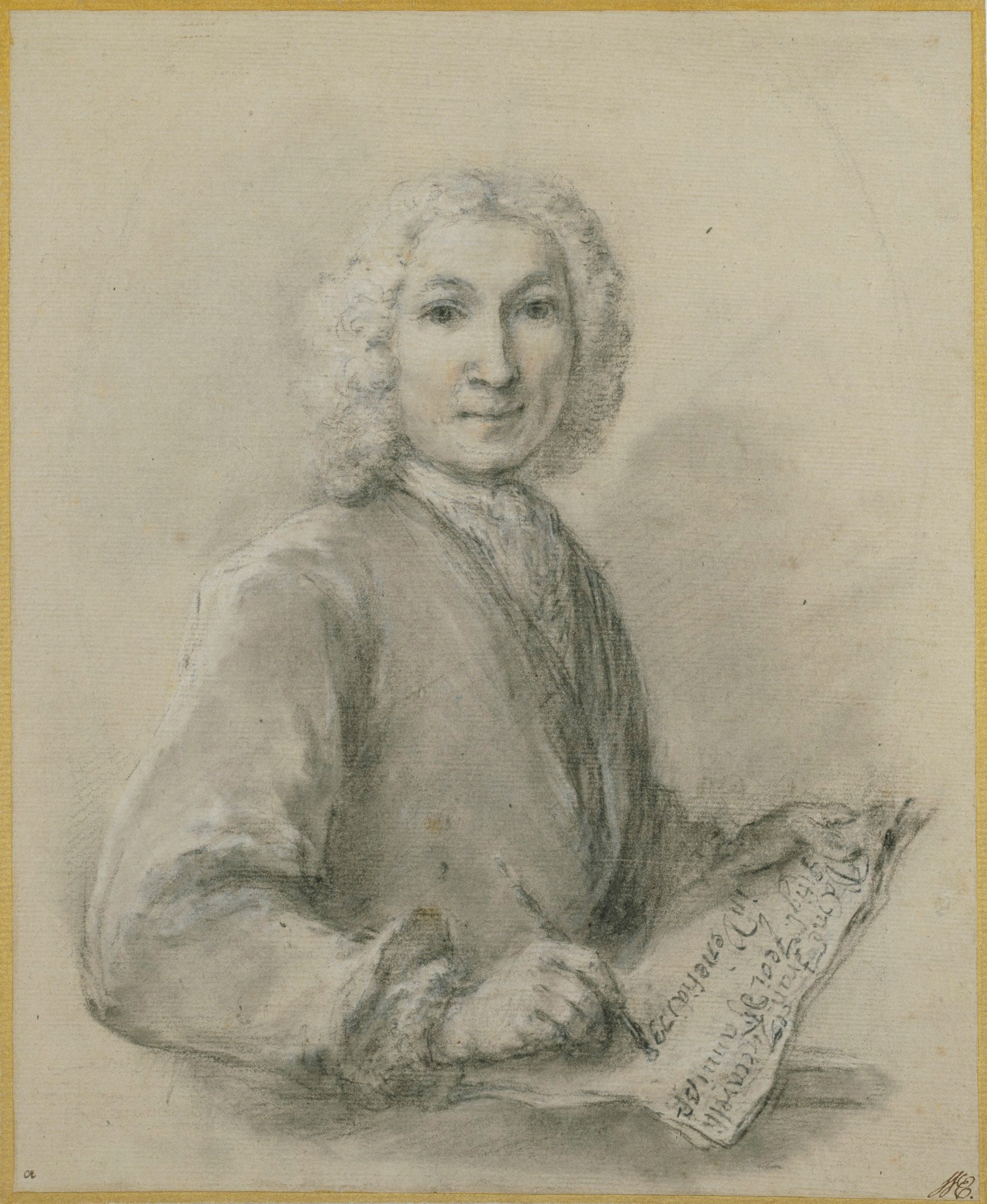 Chalks on laid paper. Royal Academy of Arts, London.